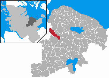 This map shows the area of the Stadt (town) Schwentinental in the Kreis (district) Plön, Schleswig-Holstein, Germany.